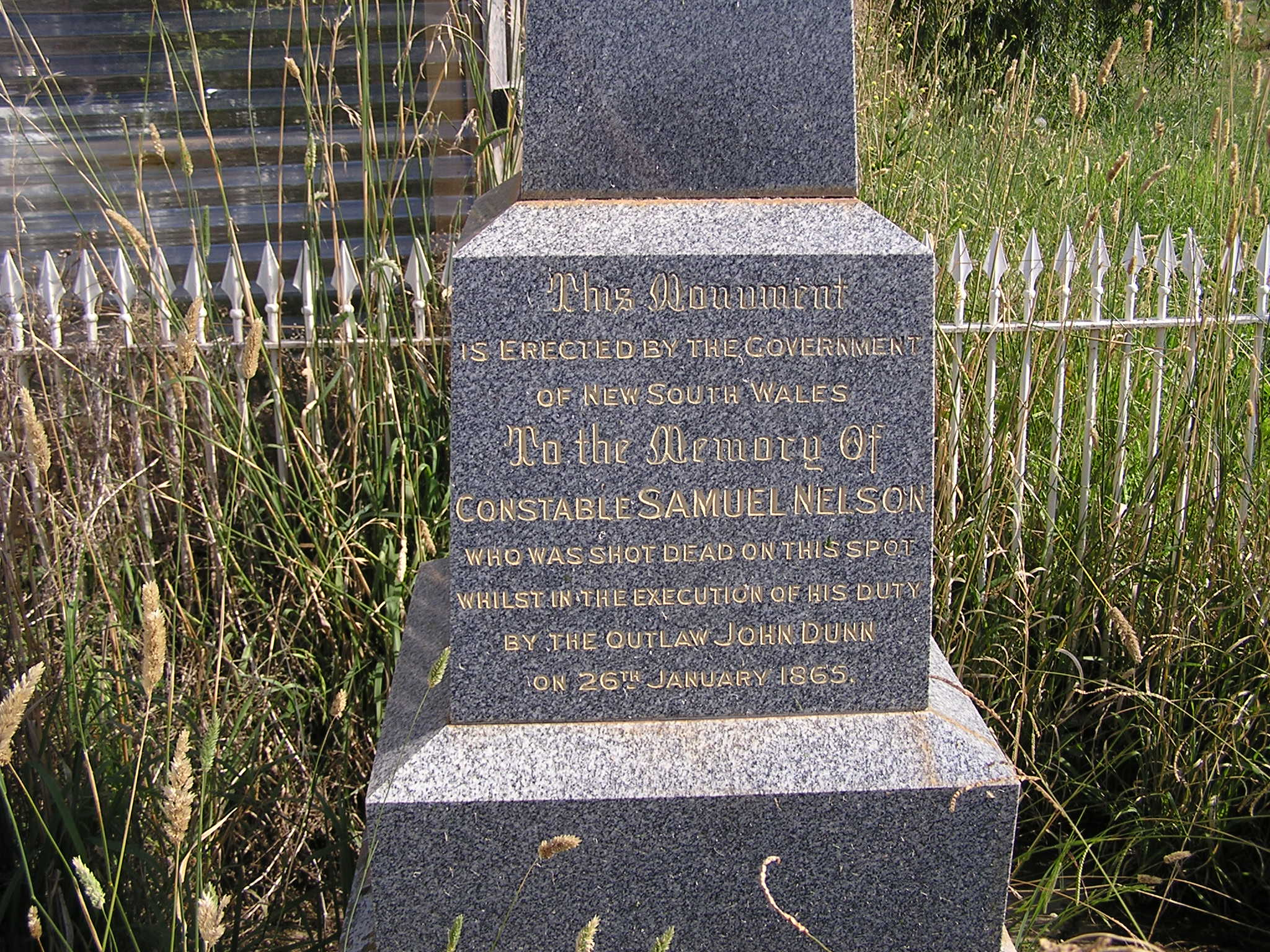 Detail of Memorial to Constable Nelson of Collector, New South Wales shot dead by the bushranger John Dunn in 1865